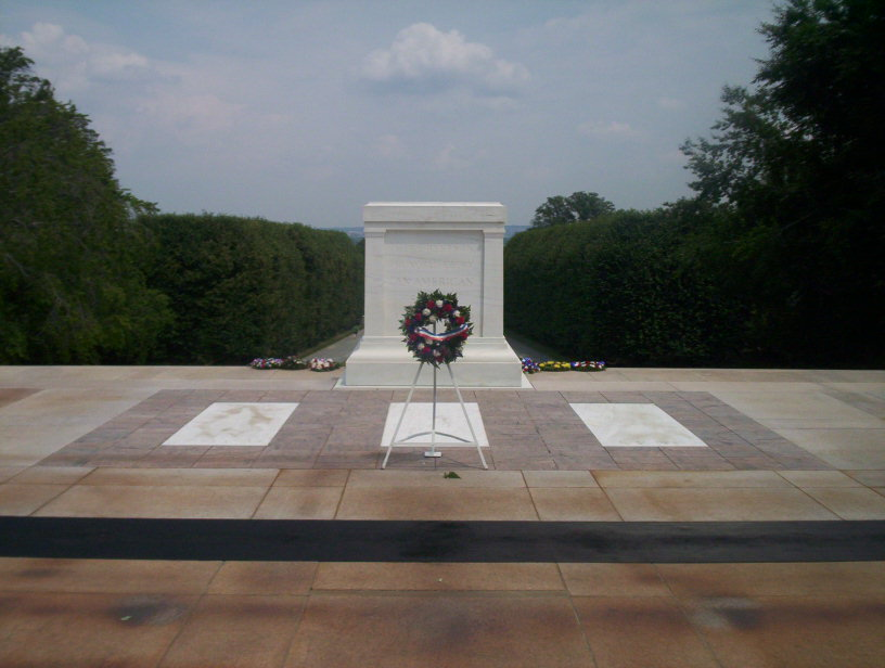 Arlington National Cemetery, Washington, D.C., United States; Tomb of the Unknown Solider